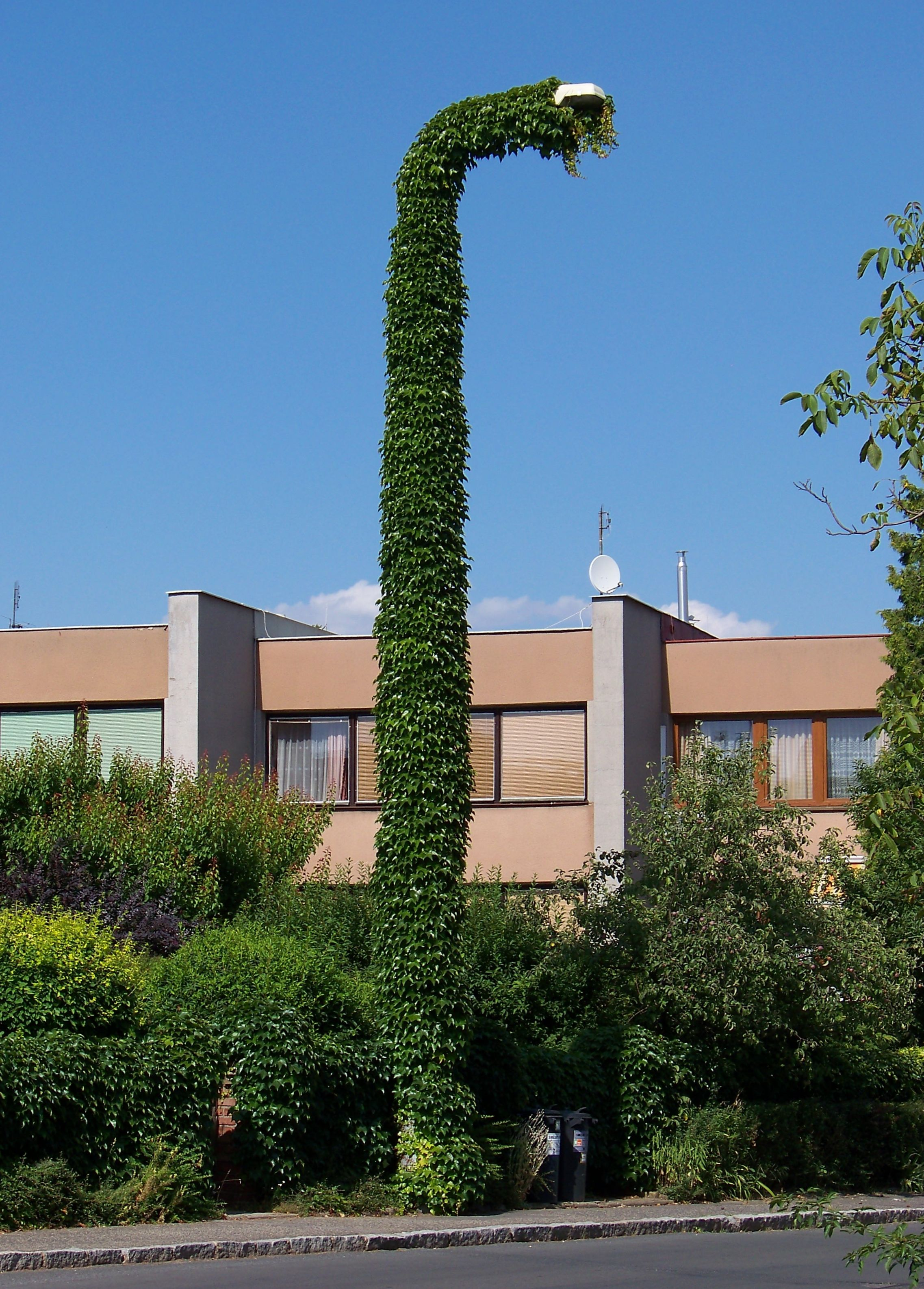 Prague-Dejvice, the Czech Republic. Baba, Matějská, a lamp with climbing plants.